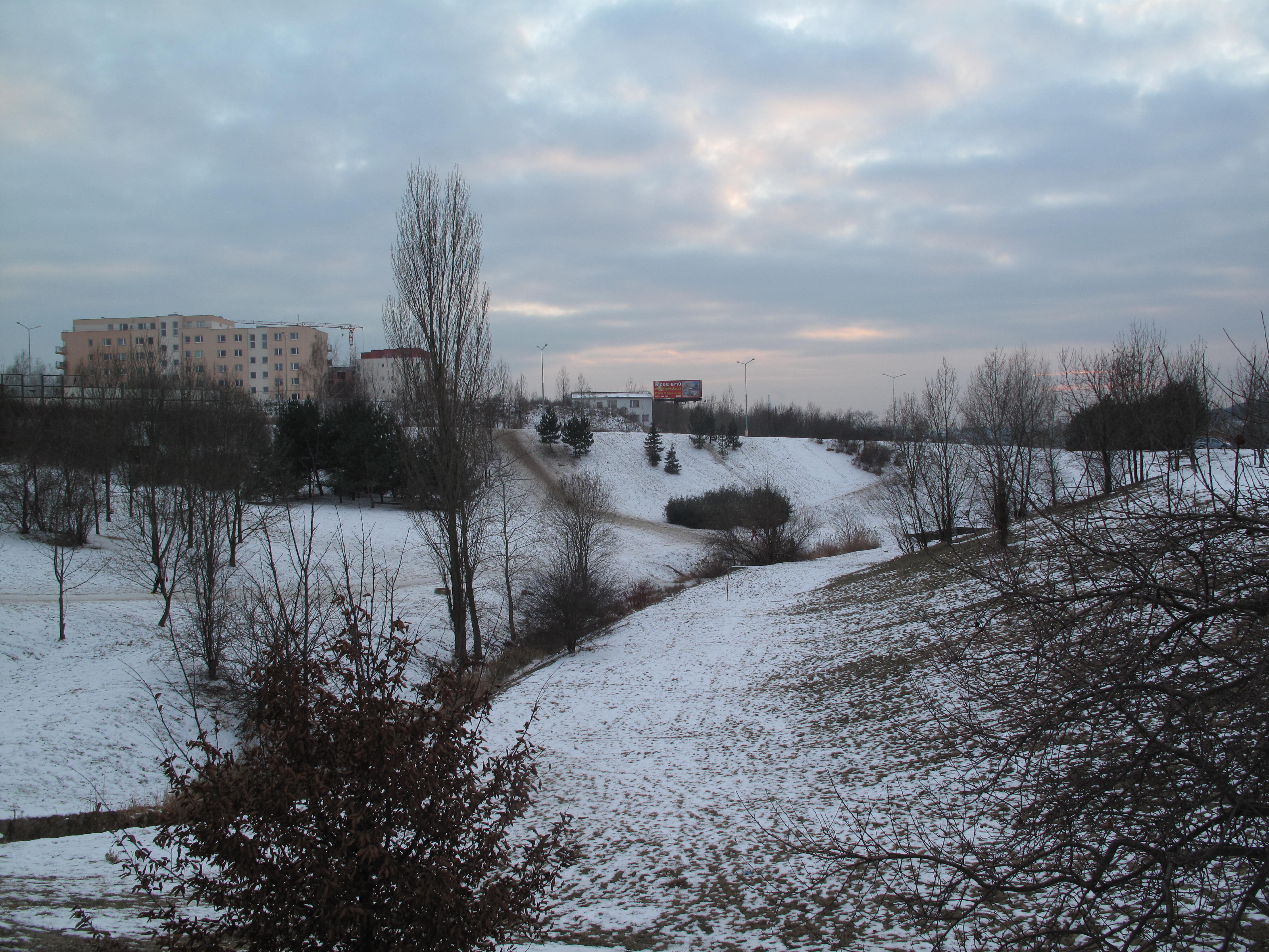 Ocelkova street in Černý Most, Prague